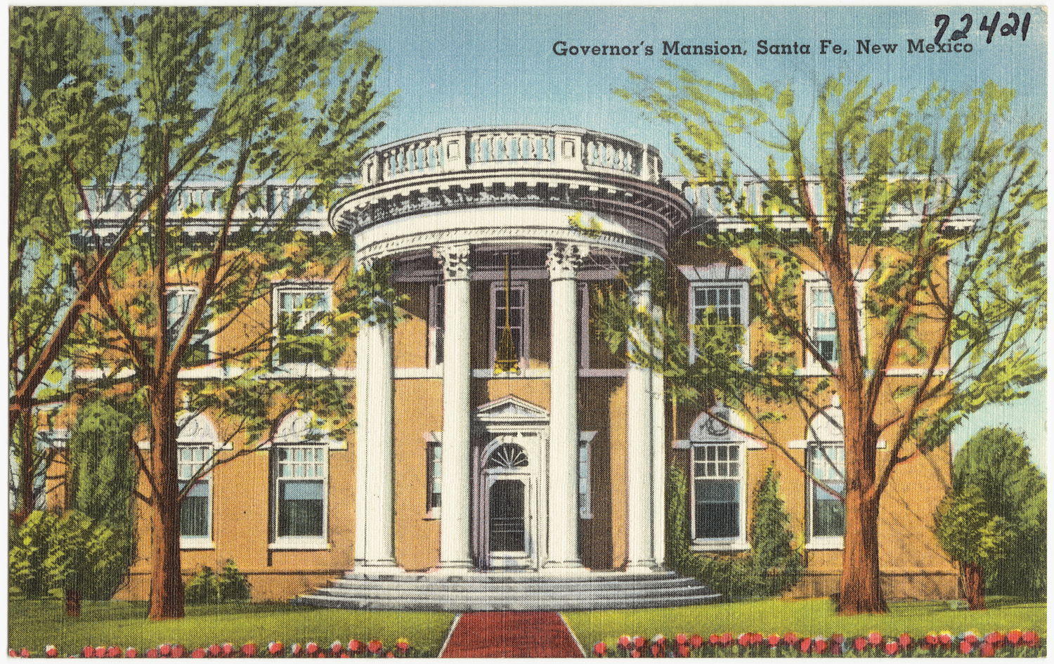 File name: 06_10_015685 Title: Governor's Mansion, Santa Fe, New Mexico Created/Published: Alfred Mc Garr Adv. Ser., Albuquerque, N. M.; Tichnor Bros. Inc., Boston, Mass. Date issued: 1930 - 1945 (approximate) Physical description: 1 print (postcard) : linen texture, color ; 3 1/2 x 5 1/2 in. Genre: Postcards Subjects: Houses Collection: The Tichnor Brothers Collection Location: Boston Public Library, Print Department Rights: No known restrictions Flickr data on 2011-08-17: Camera: Epson Exp10000XL10000 Tags: postcard, tichnor brothers, New Mexico License: CC BY 2.0 User: Boston Public Library